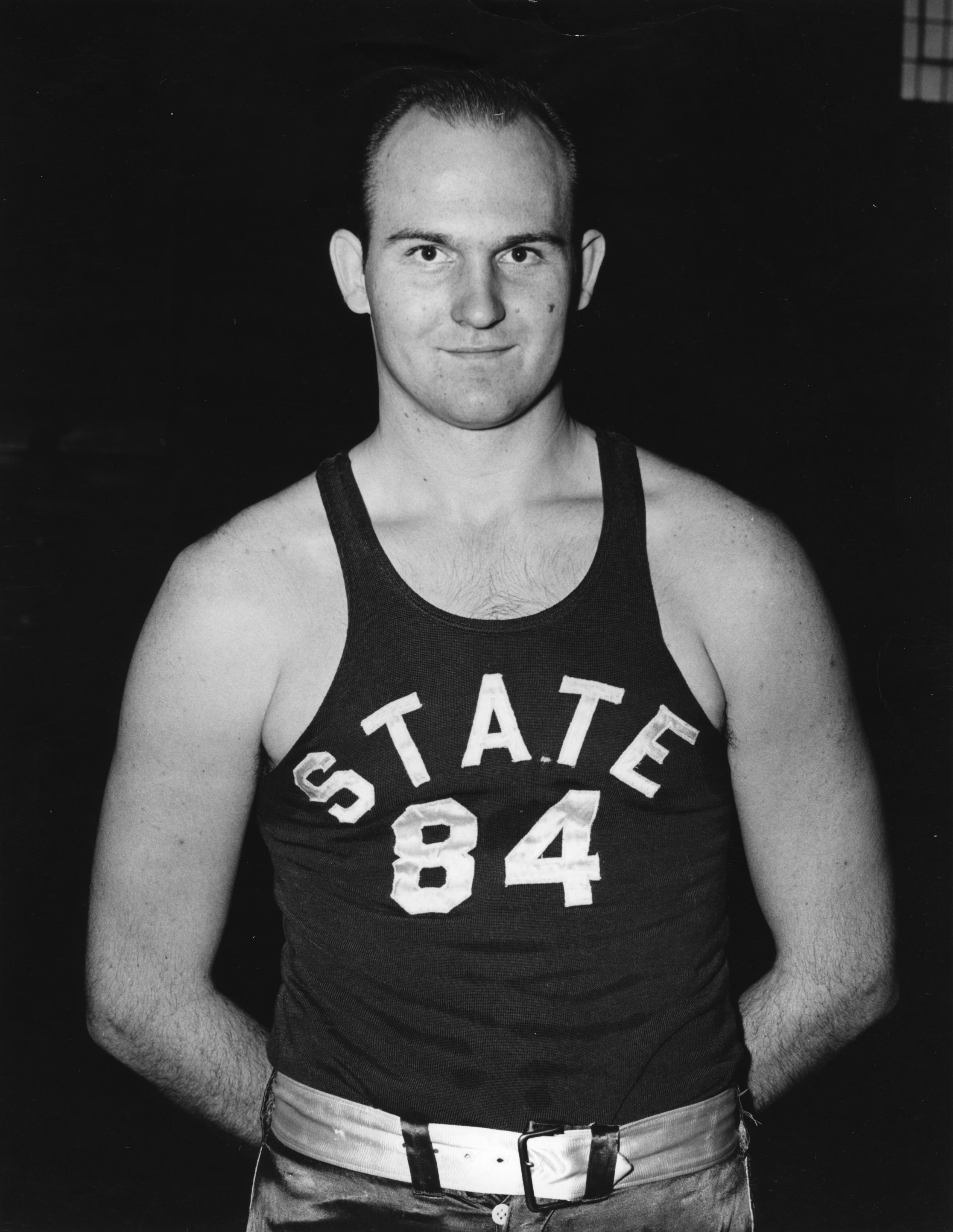 Basketball player Bob Hahn as a member of the North Carolina State University men's basketball team.